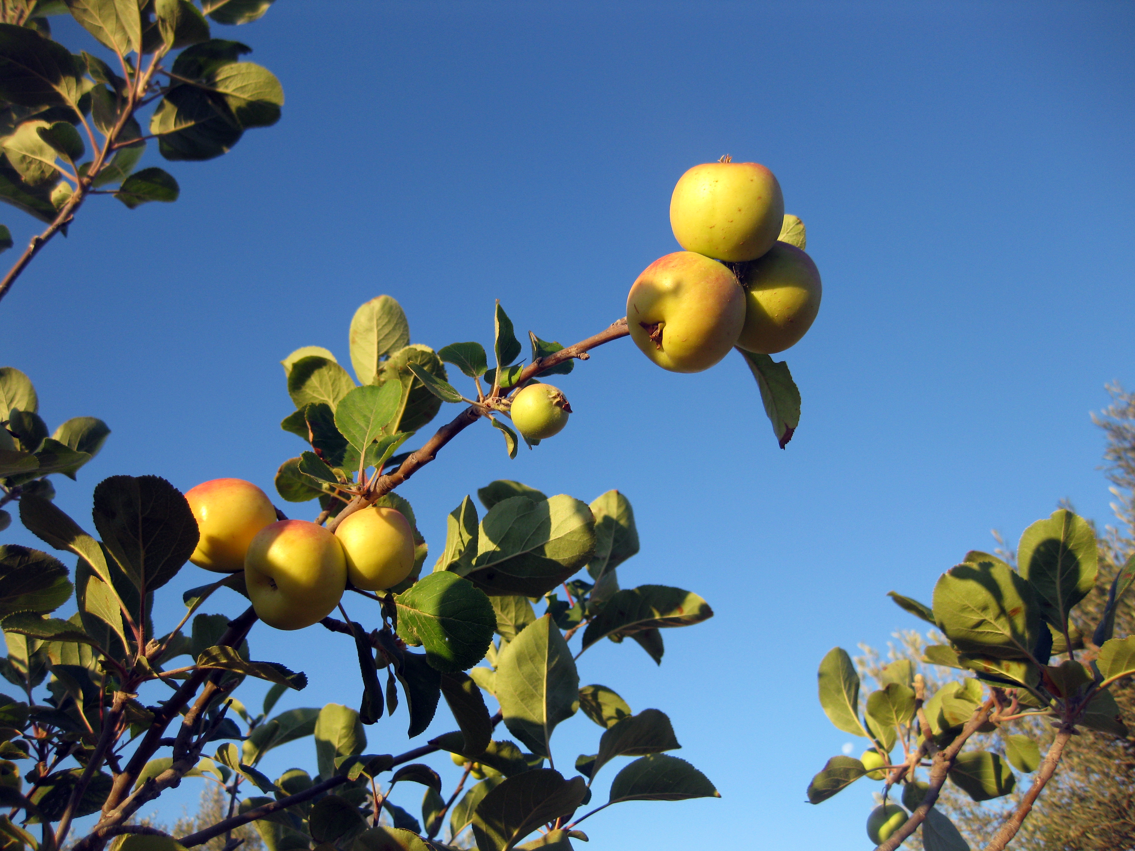 Djerbian Apple